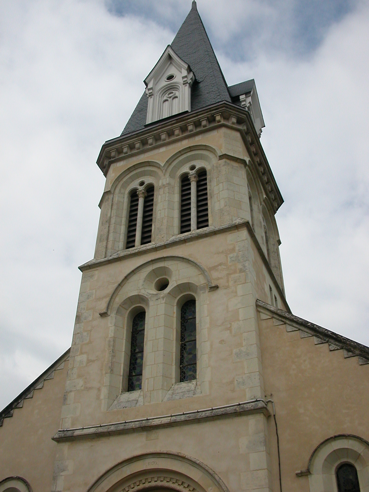 Saint-Léonard church in Noyal-Châtillon-sur-Seiche - former church of Châtillon-sur-Seiche